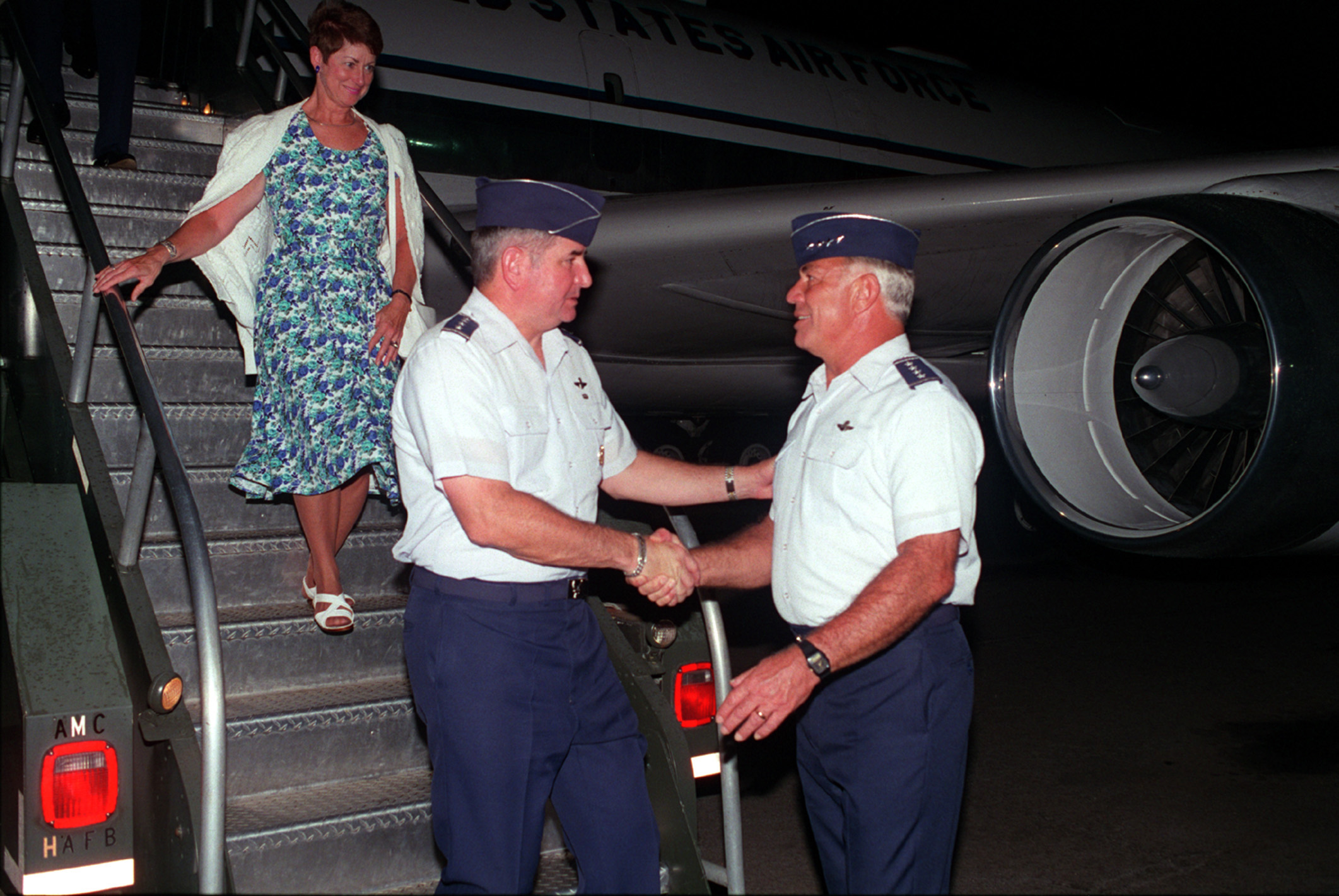 Air Force Chief of Staff General Ronald Fogleman arrived at Hickam Air Force Base, Hawaii greeted by General John G. Lorber Commander of The Pacific Air Force, for the commemoration of the 50th anniversary of the end of World War II.